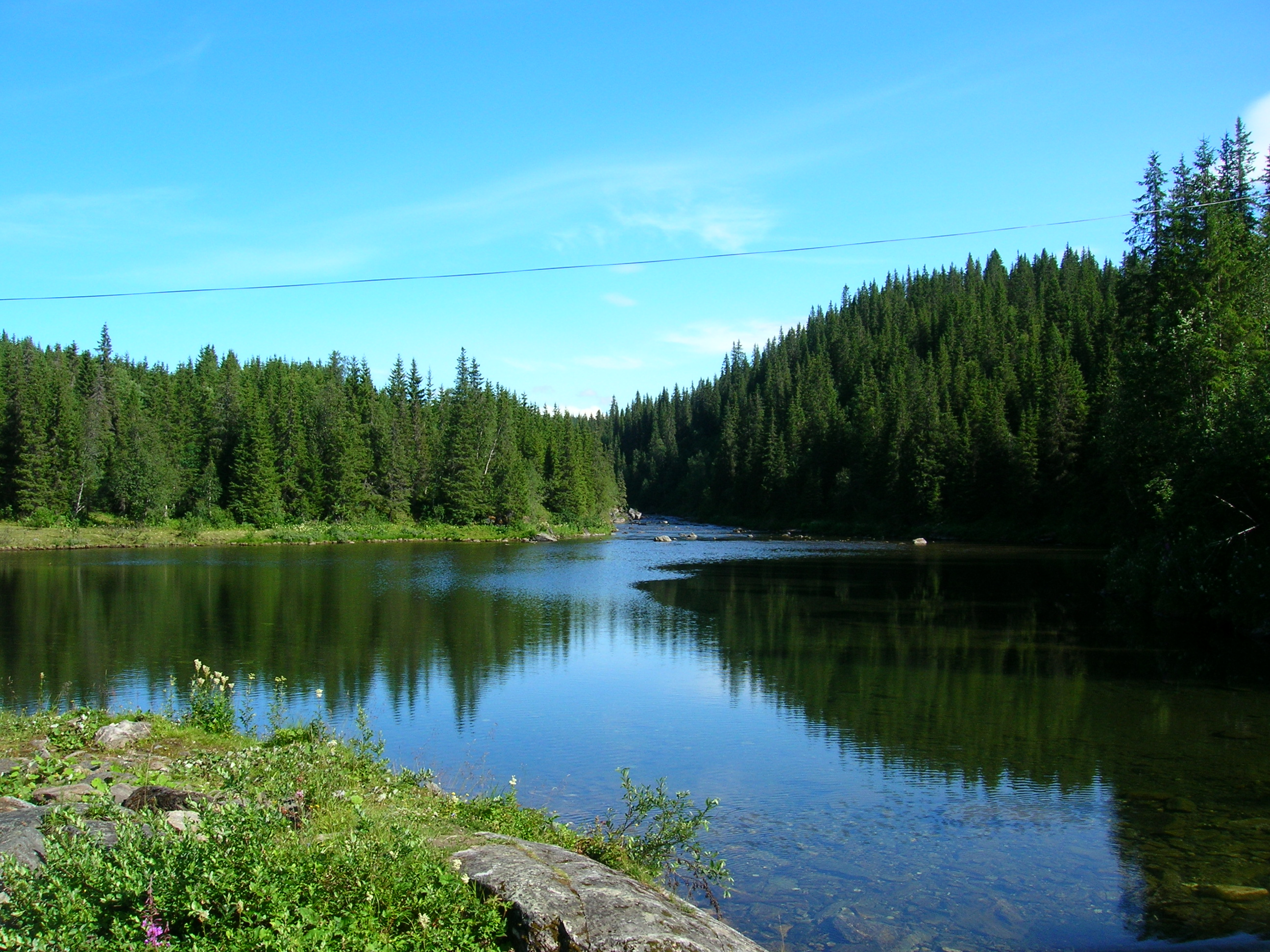 The River Plura passing through the valley Plurdalen in Rana municipality, county of Nordland, Norway, Photo 23 July, 2007 with a Nikon Coolpix 5600 5,1 Megapixel camera.